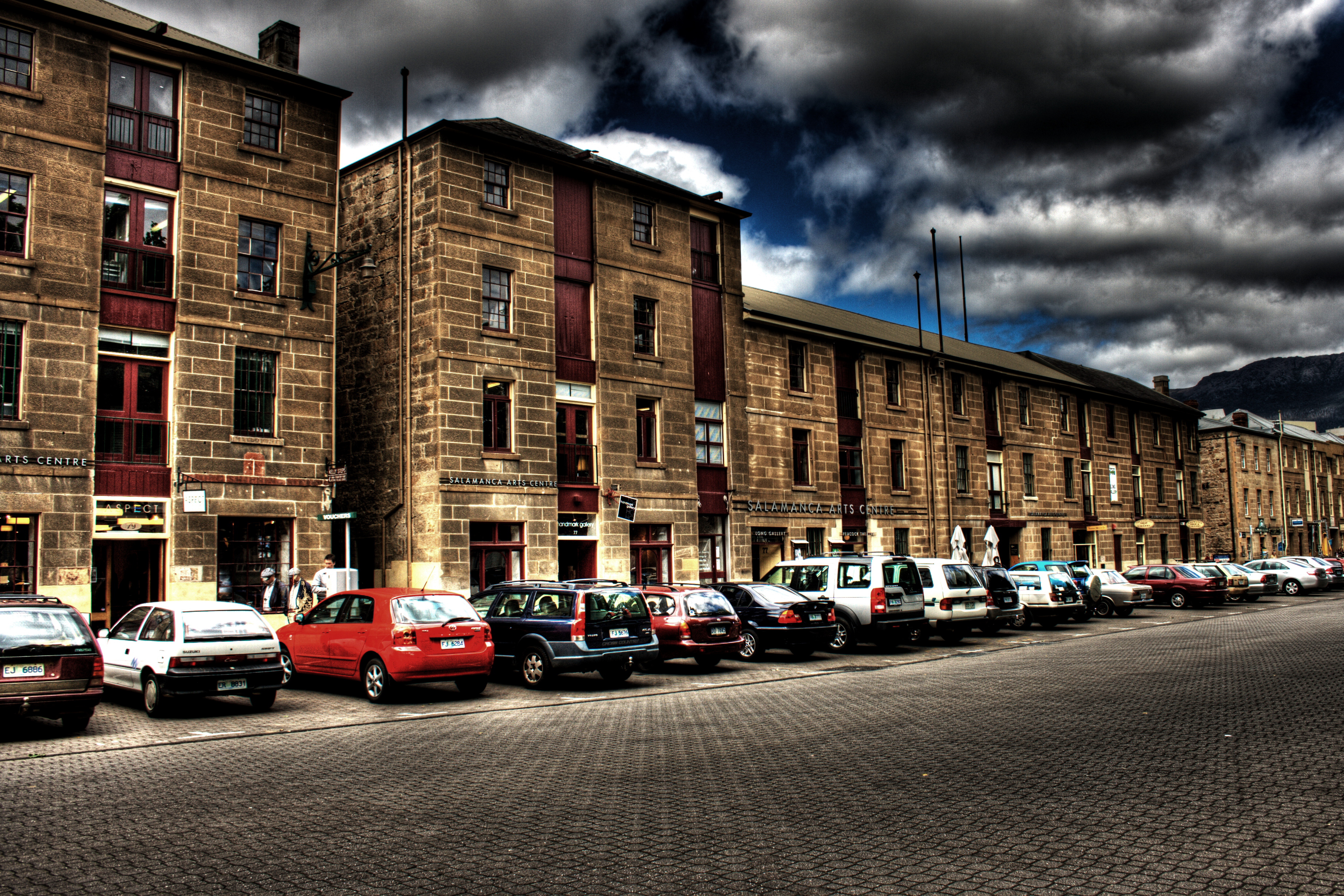 A street view of Salamanca Place, Hobart. Taken on 22 November 2008.